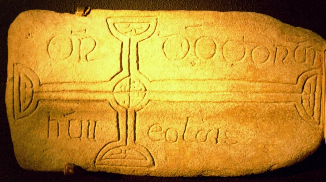 Grave slab with the inventory number CLN00361 and the inscription: “OR DOODRAN HAU EOLAIS”. Translated as “Pray for Odhran h-Ua Eolais”. Ódhrán Ua hEolais was a scribe at Clonmacnoise who died in 994.